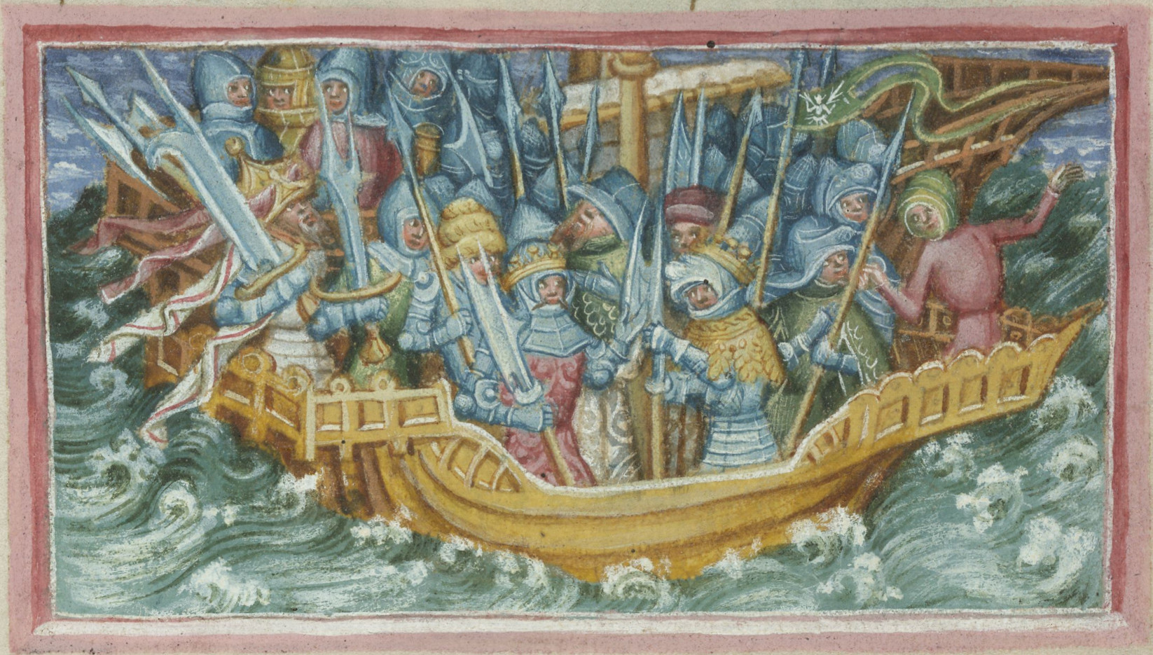 Excerpt from folio 47v of Harley MS 2278. The scene depicts Hinguar and Hubba setting out to avenge their father, Lothbrok.